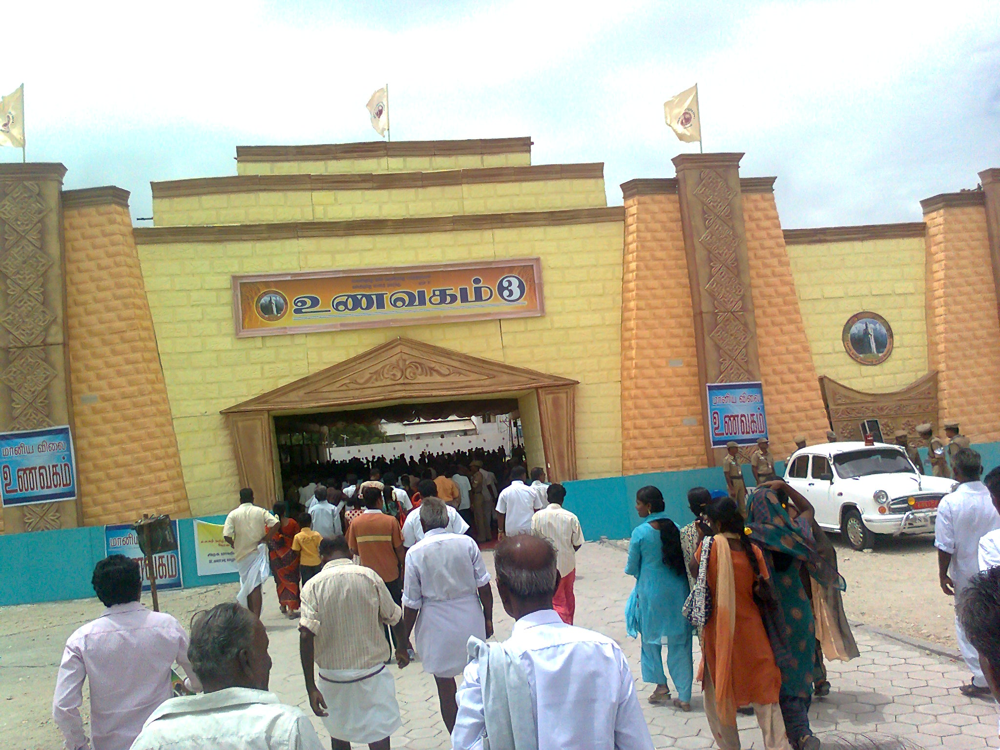 image of world classical tamil conference-2010, subsidized food hall front view